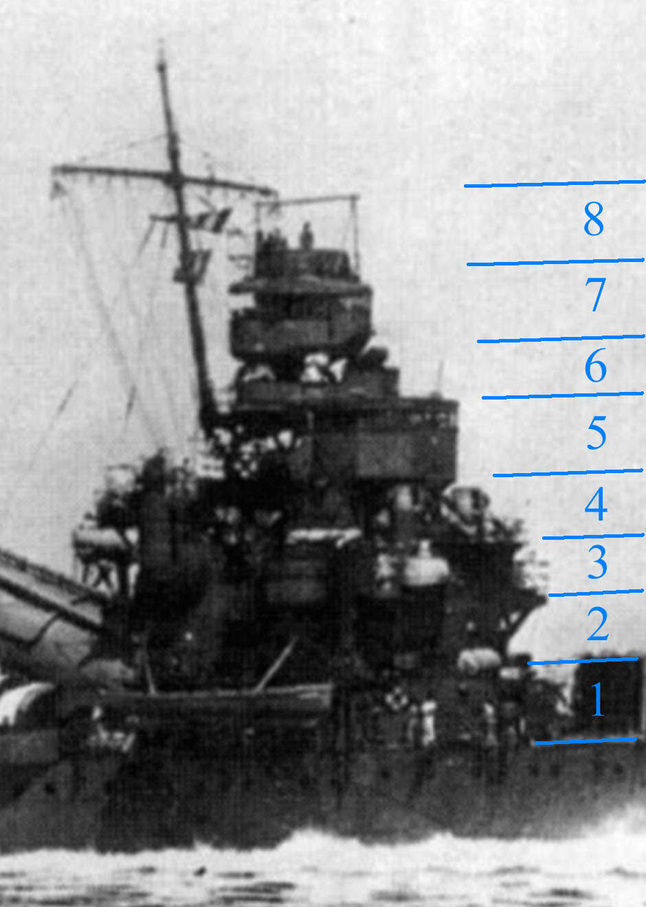 Bridge of the heavy cruiser Furutaka after reconstruction. Legend: 1 - Upper deck level 2 - Lower bridge deck 3 - Middle bridge deck 4 - Upper bridge deck 5 - Compass bridge 6 - Antiaircraft-command platform 7 - Target survey platform (sokuteki sho) 8 - Main gun fire command room and rangefinder room (not yet installed)